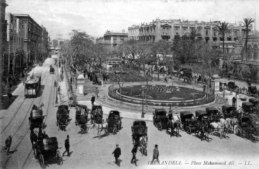 Place Mohammed Ali in Alexandria, Egypt (1910 - 1920)